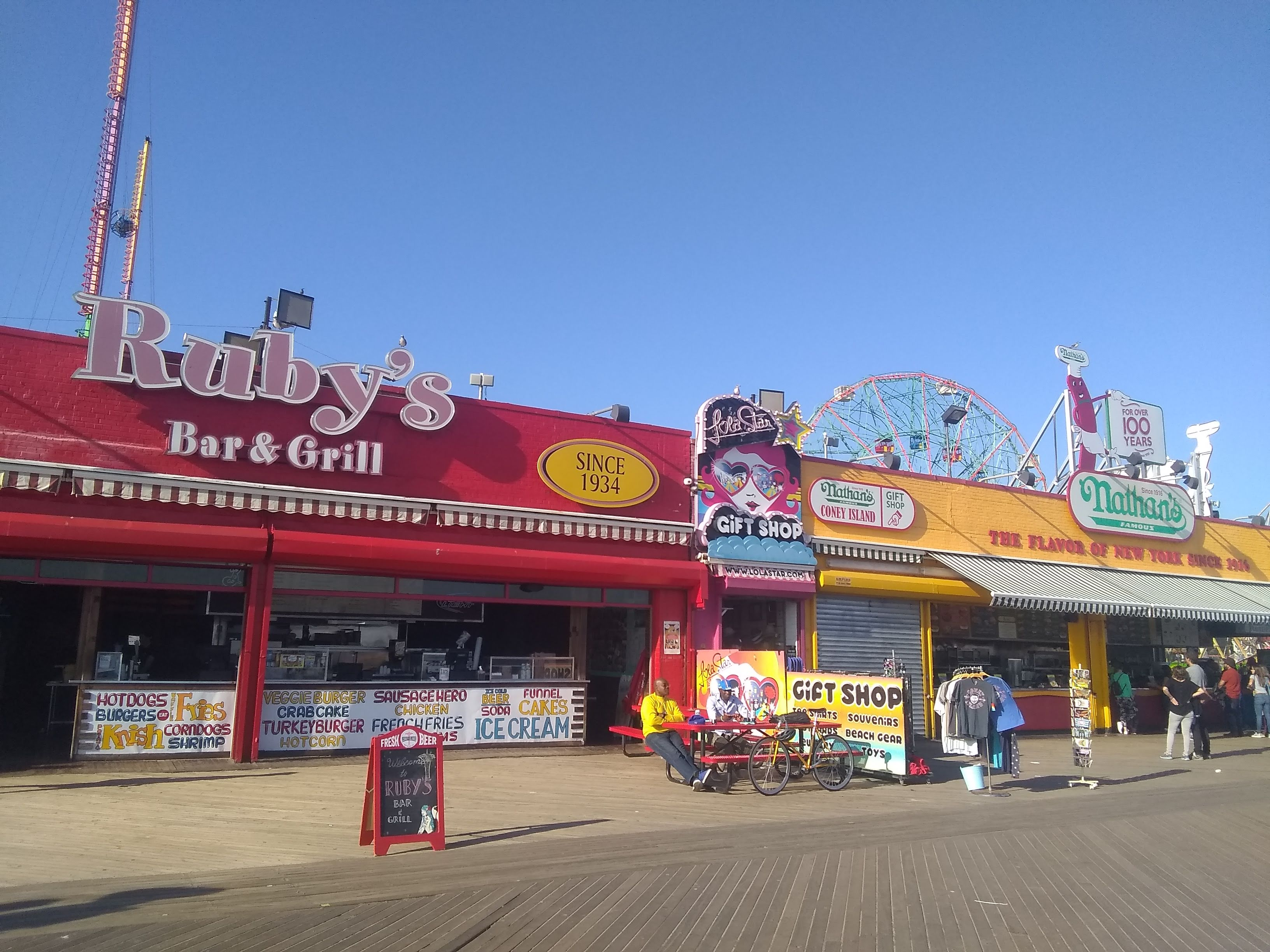 Coney Island in Brooklyn, New York, seen in September 2019; boardwalk front